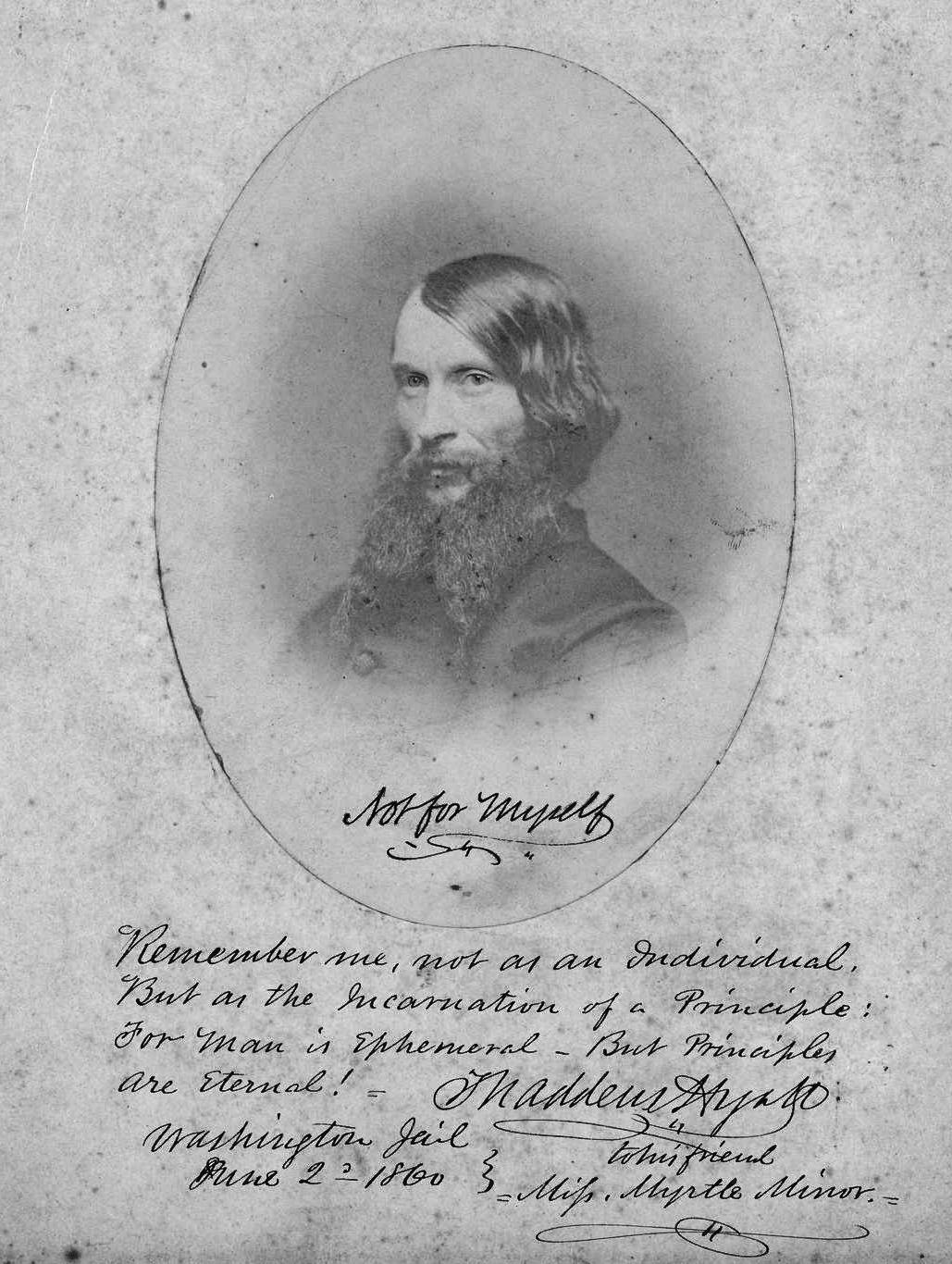 Thaddeus Hyatt June 2, 1860 inscribed "Not for Myself" / "Remember me, not as an Individual, But as the Incarnation of a Principle: For Man is Ephemeral, But Principles are Eternal! Thaddeus Hyatt / to his friend Miss Myrtle Minor," and dated from the Washington Jail, June 2, 1860